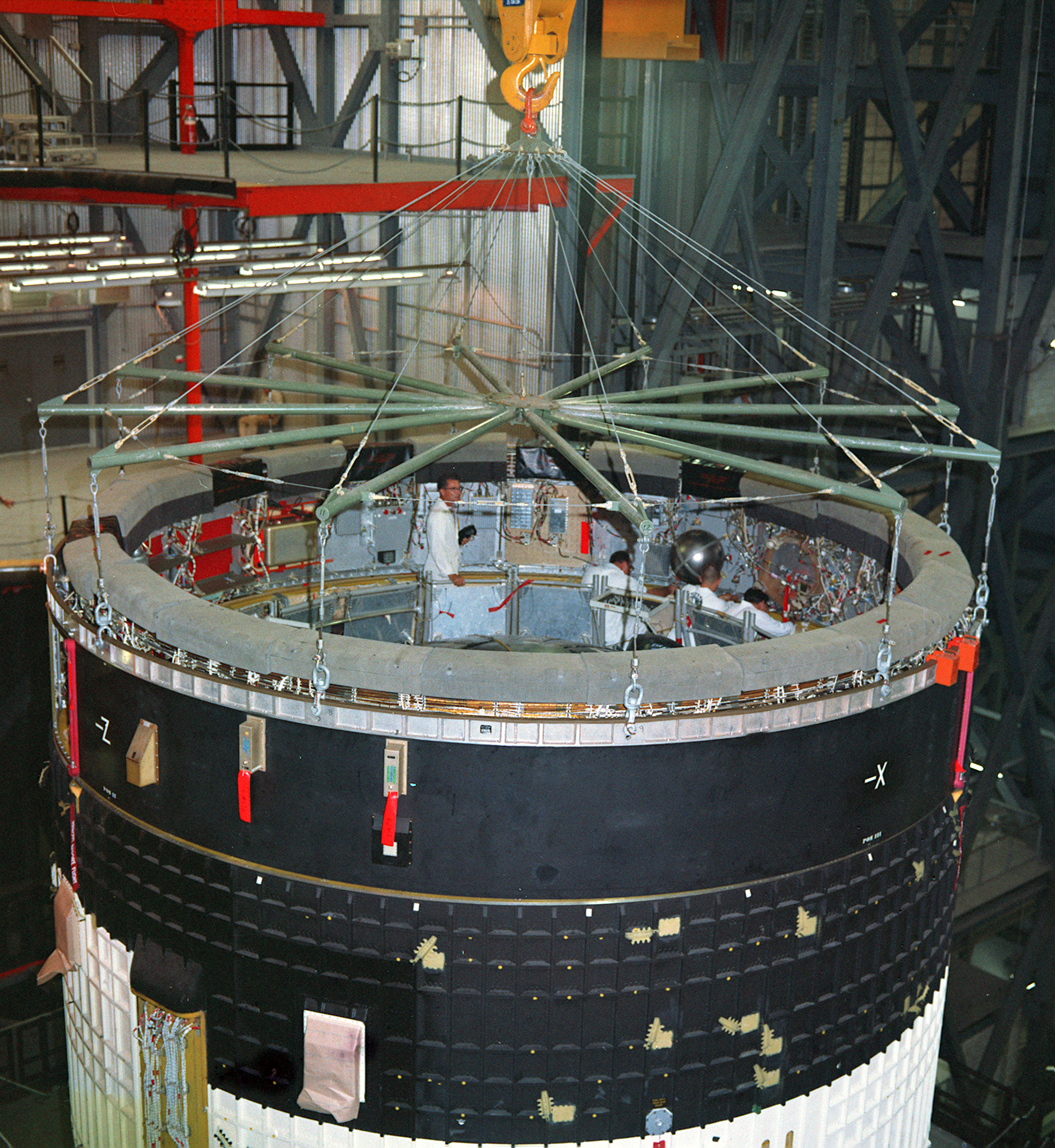 NASA LARC NIX]